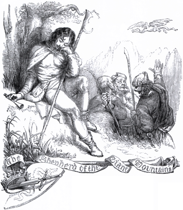 Illustration for Menella Bute Smedley's translation of "The Shepherd of the Giant Mountains" by Friedrich de la Motte Fouqué. Shows the shepherd Gottschalk with fellow shepherds and a dragon-like "griffin" in the distance.